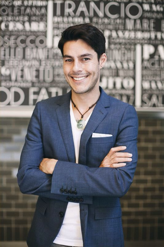 Feb 2014 before appearing on Bella Mars for NTV7